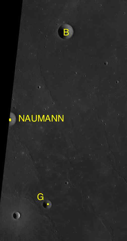 Part of the chart LAC-23 used for the presentation